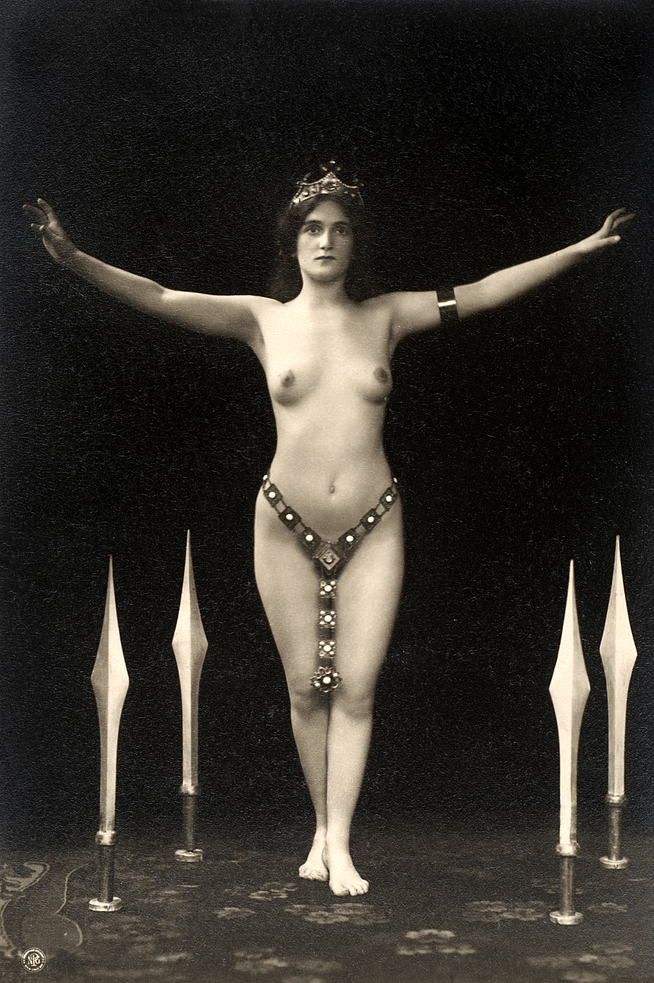 Olga Desmond performs the "Sword Dance" in these 1908 photos taken by Otto Skowranek.